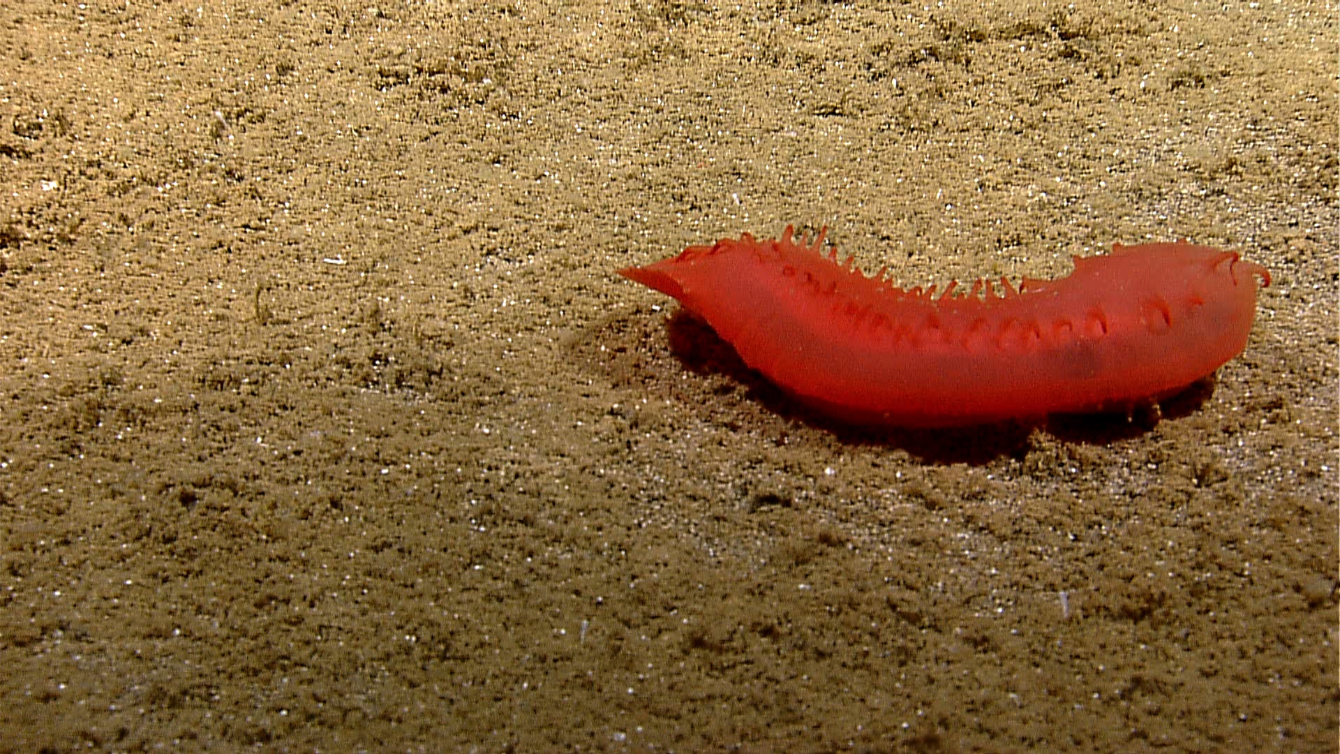 A reddish-orange holothurian on a sandy substrate (order Elasipodida). Image ID: expl5493, Voyage To Inner Space - Exploring the Seas With NOAA Collect Photo Date: 2010 August 4 Credit: NOAA Okeanos Explorer Program, INDEX-SATAL 2010